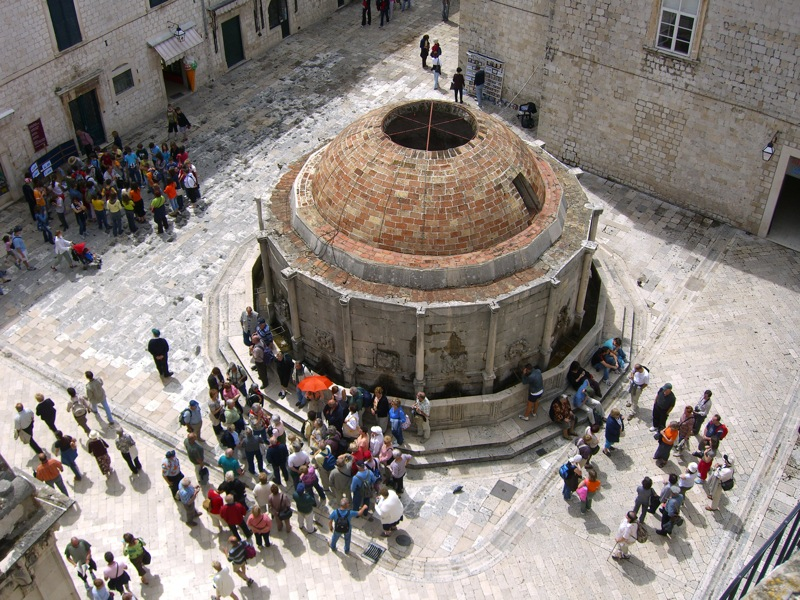 Onofrio Fountain in Dubrovnik